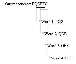 Query word